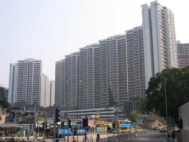 Chi Fu Fa Yuen, Pok Fu Lam, Hong Kong Island, Hong Kong